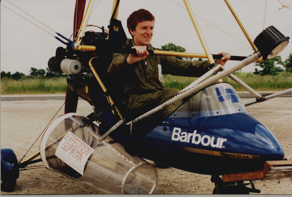 Image showing the Barnes Wallis Moth Machine, a modified microlight aircraft designed for catching moths over the rainforest canopy (1992)